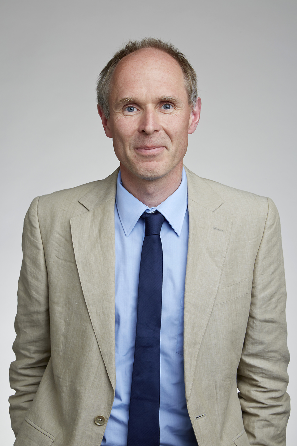 Gilean Alistair Tristram McVean (born 1973) FRS FMedSci is a professor of statistical genetics at the University of Oxford, director of the Big Data Institute, fellow of Linacre College, Oxford and co-founder and director at Genomics plc. He also co-chaired the 1000 Genomes Project analysis group. Attribution: The Royal Society